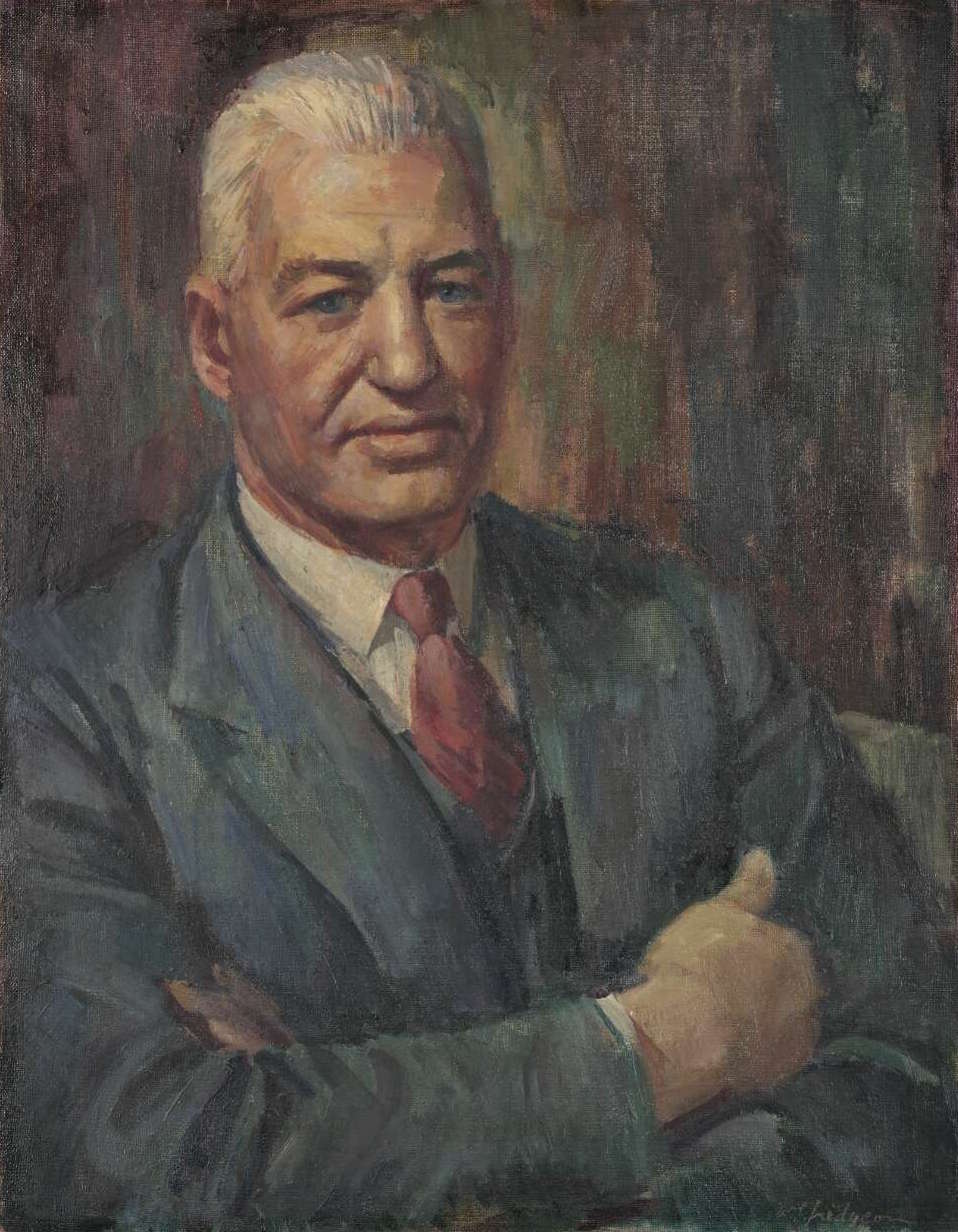 Edward Granville Theodore, c. 1945